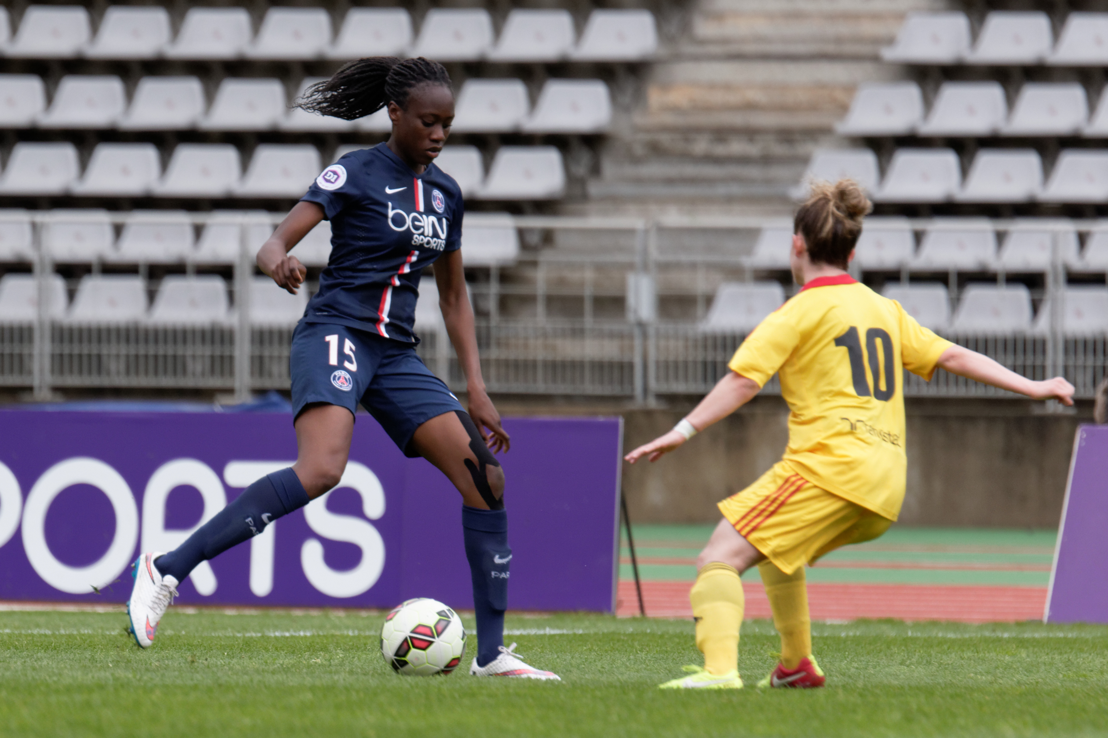 PSG vs Rodez, 3rd May 2015.